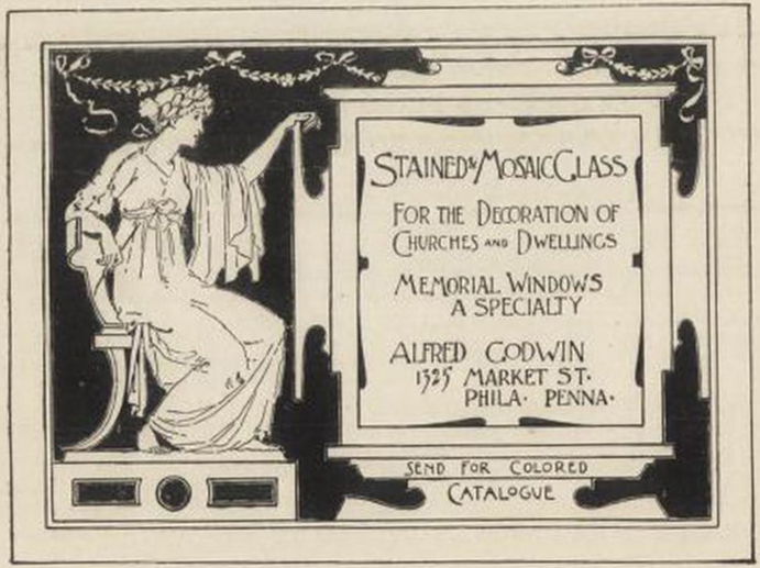 Advertisement for Alfred Godwin, stained glass designer.